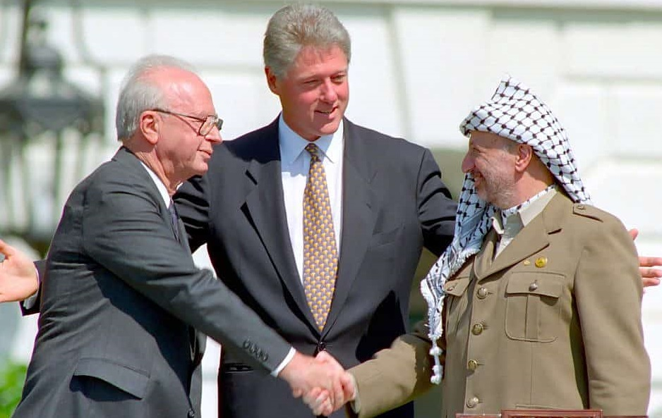 Israeli Prime Minister Yitzhak Rabin, U.S. president Bill Clinton, and PLO chairman Yasser Arafat.